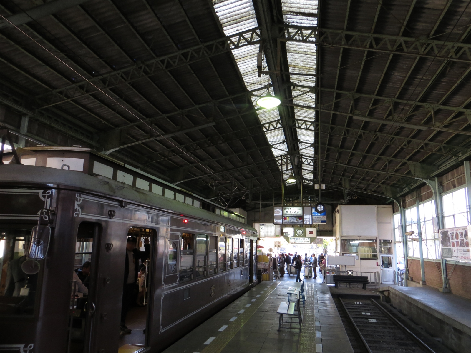 Platform of Kitano-Hakubaichō Station, Randen Kitano Line.